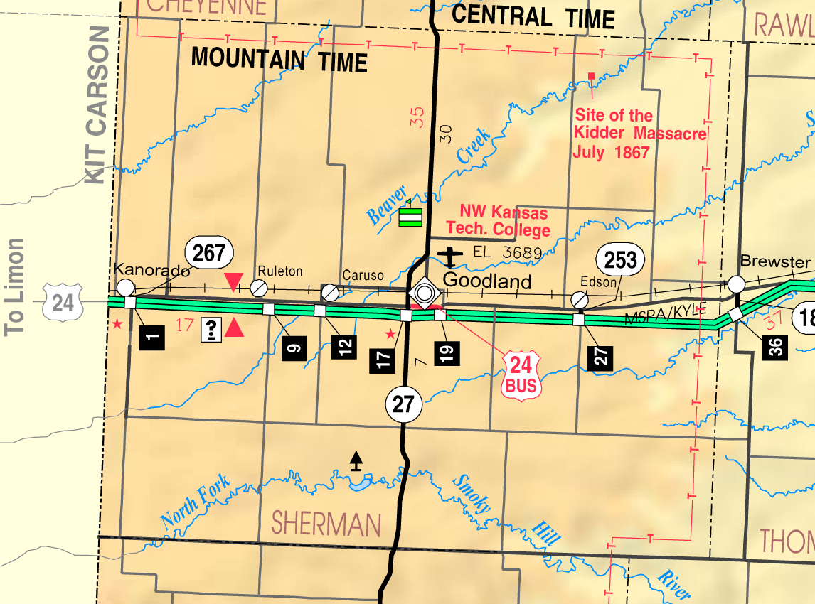 This map of Sherman County, Kansas, USA, is copied at a resolution of 300 pixels/inch from the original PDF file.